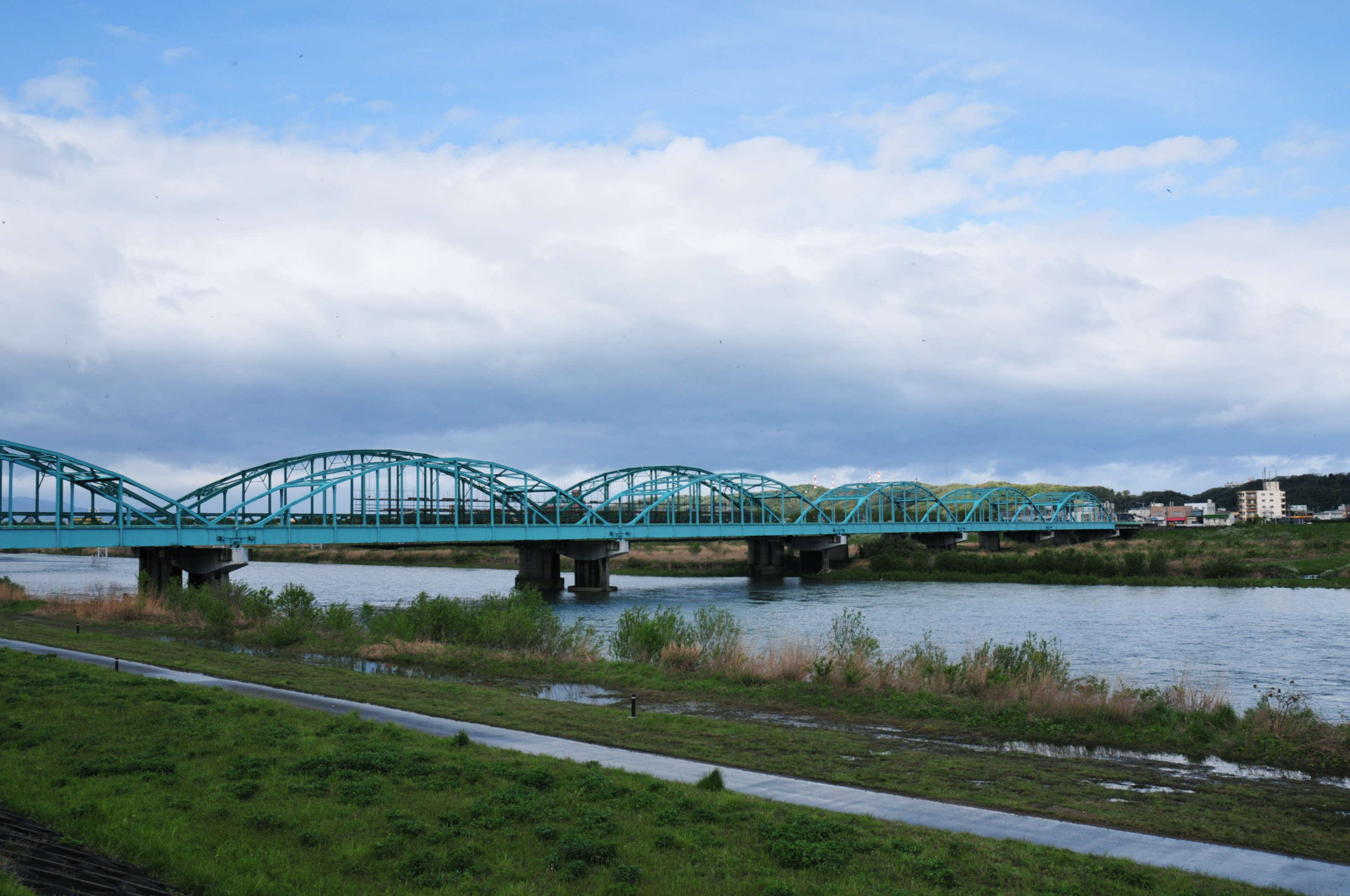 Jinzū-Ōhashi, a bridge over the Jinzū River in Toyama City, Japan.